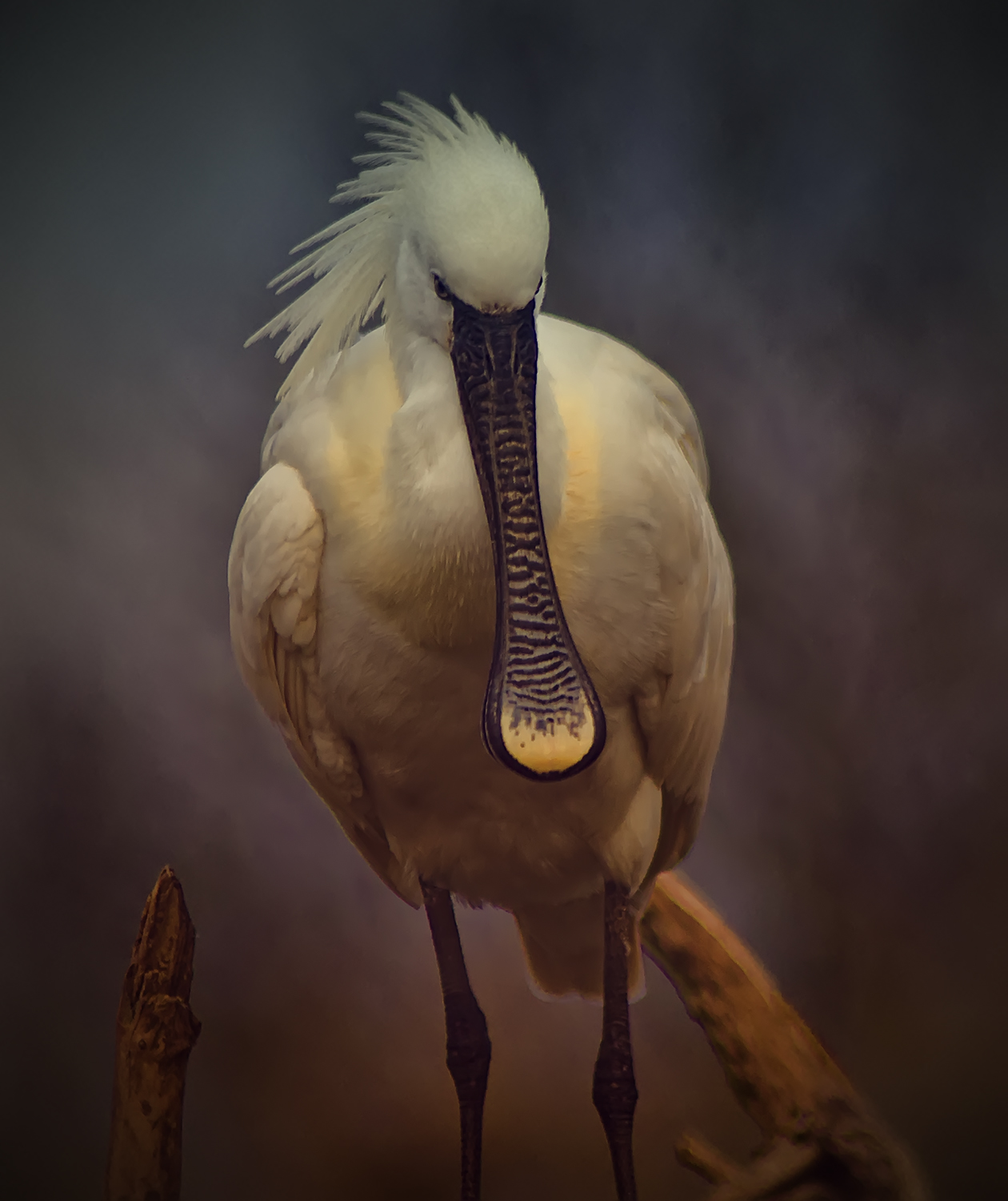 European Spoonbill (Platalea leucorodia) at Chester Zoo, England